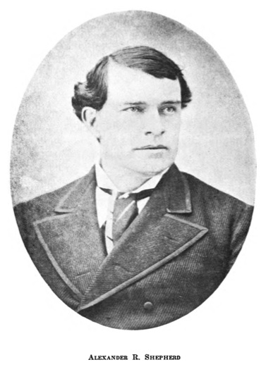 Photograph taken in 1874 of Alexander Robey Shepherd at age 39.